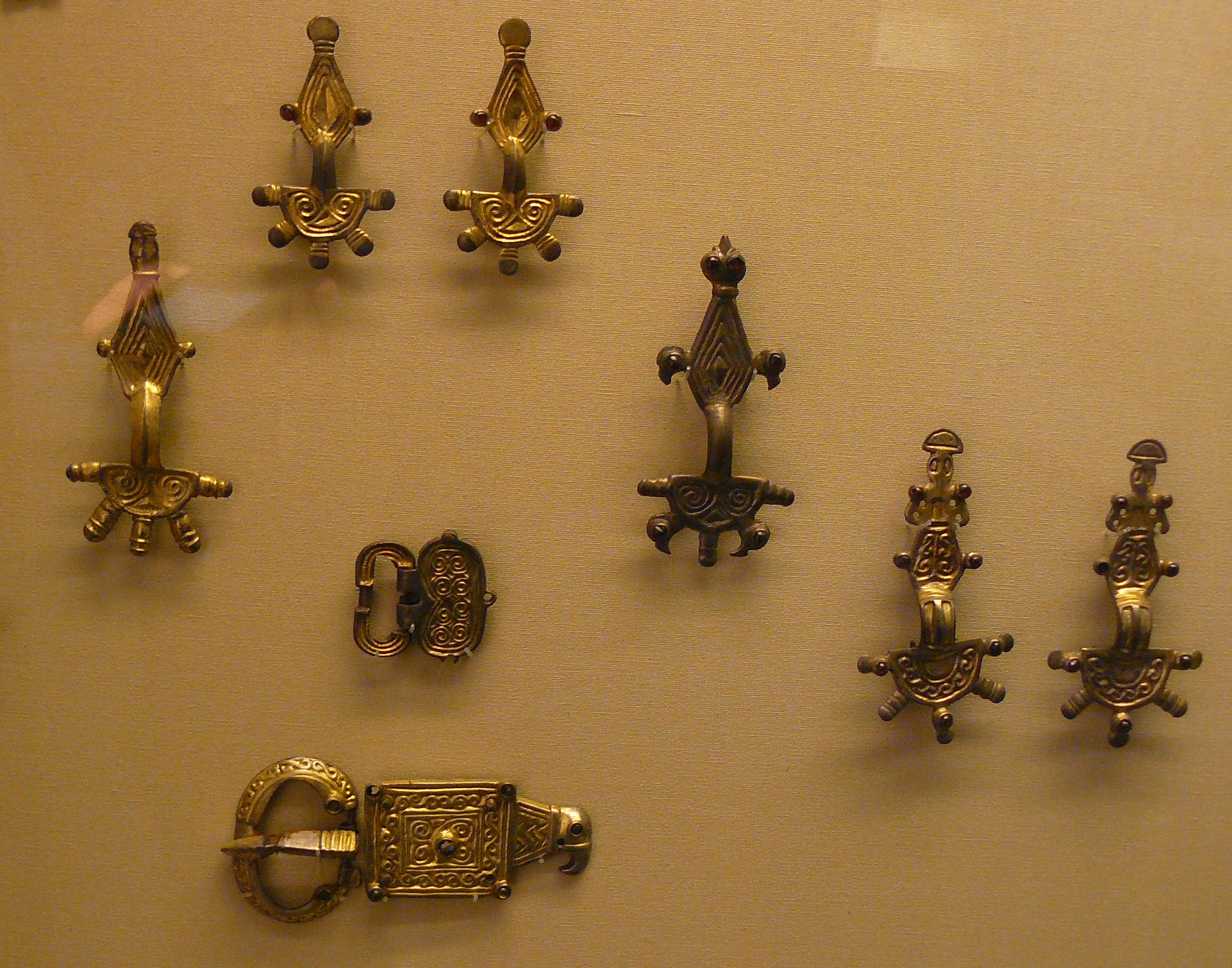 Six brooches and two buckles (5th-6th century) from Kerch, Crimea, Ukraine. Germanic style. British Museum, London.